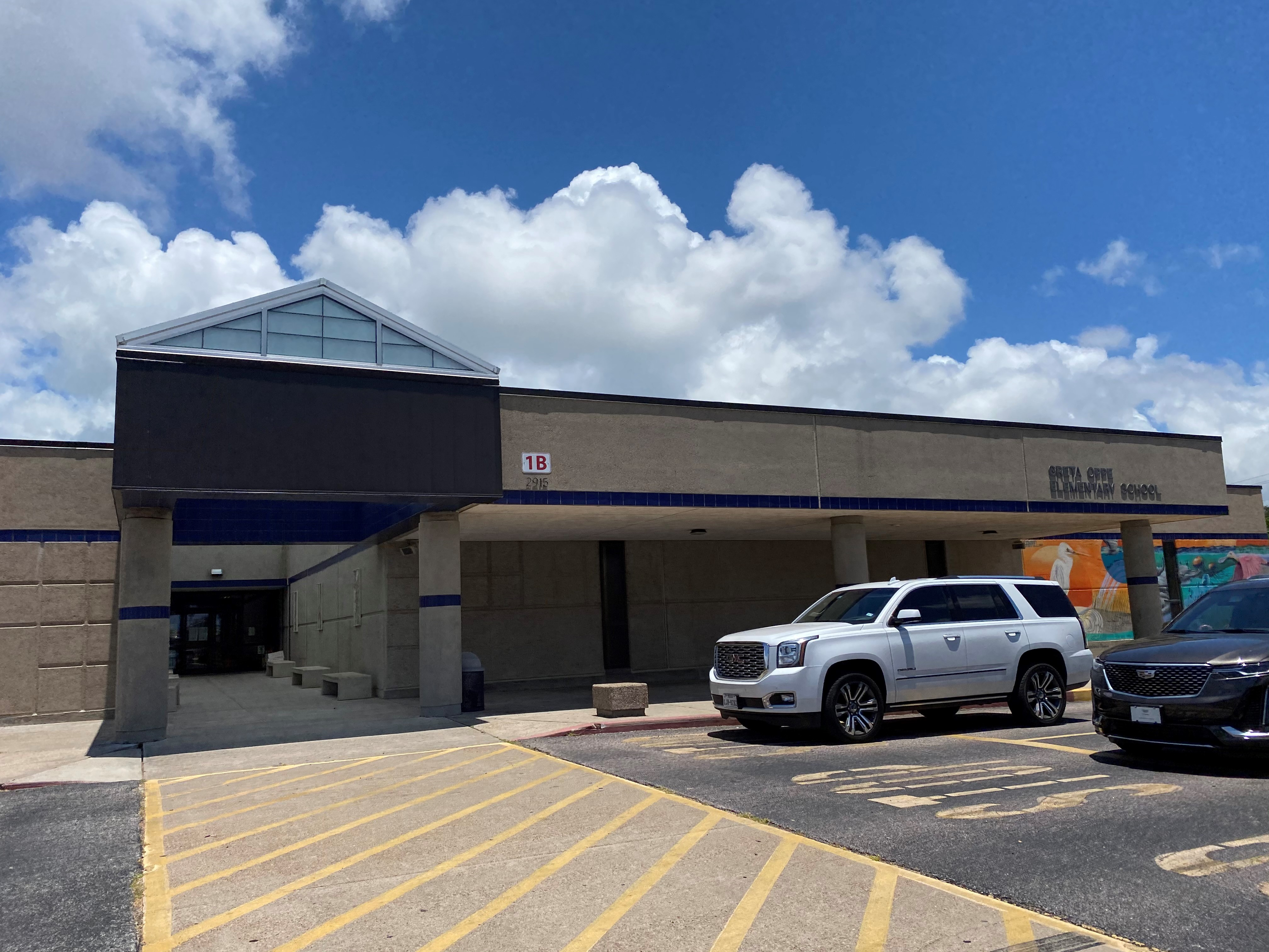 Greta Oppe Elementary School, a.k.a. Greta Oppe Elementary Magnet Campus of Coastal Studies